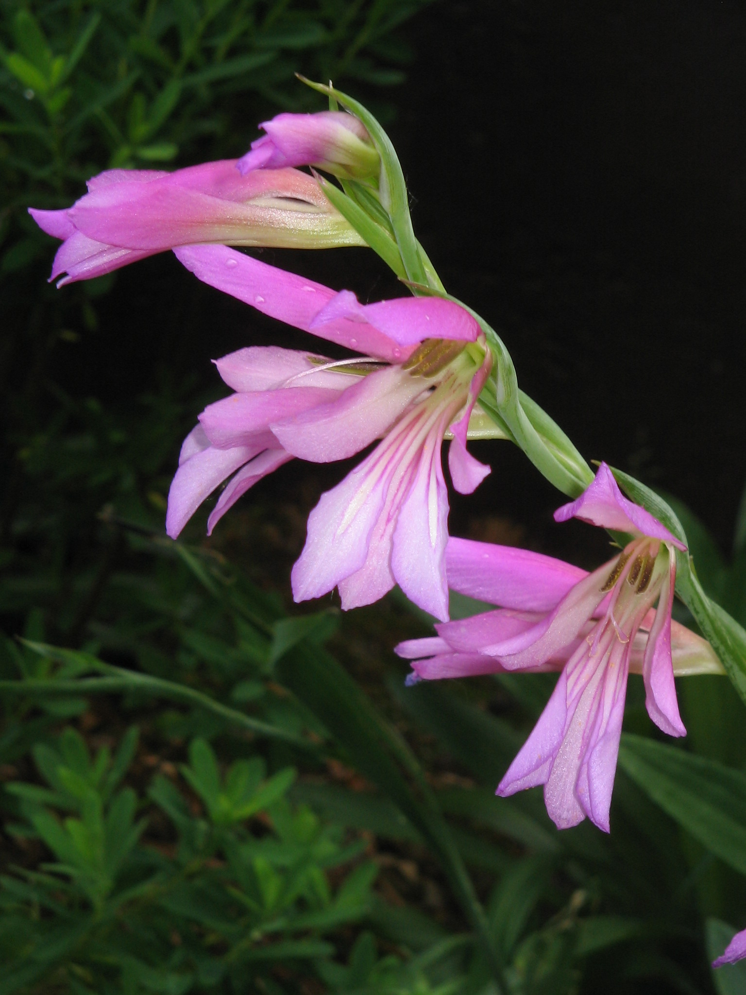 Gladiolus italicus